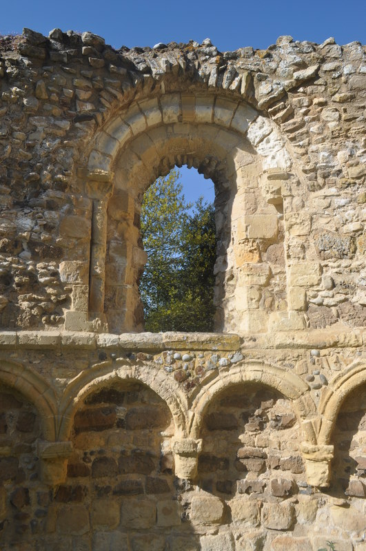 Dunwich Leper Hospital, near to Dunwich, Suffolk, Great Britain. Dunwich leper hospital is the remains of a 13th century building that cared for people affected by leprosy. It was founded well outside town ditch (Pales dyke) by Richard 1st in 1206, maintained by rent from Walter de Riboff. Most likely the hospital was originally a chapel, you can see this from the design. Its Caen limestone has been beautifully carved in Norman fashion. The last leper was buried in 1536 but the building became a more general hospital until abandonment in 1685. It is now in the churchyard of St James which was built in 1830. See other images of Dunwich Leper Hospital